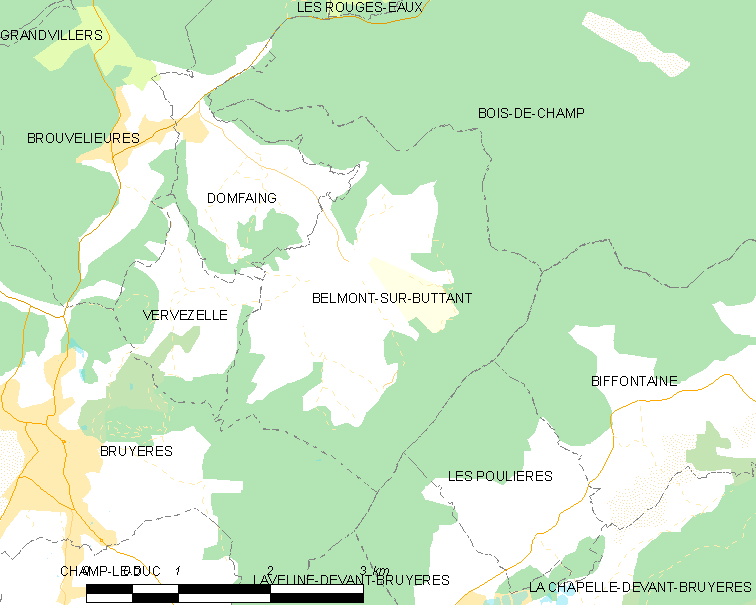 Map of French municipality Belmont-sur-Buttant